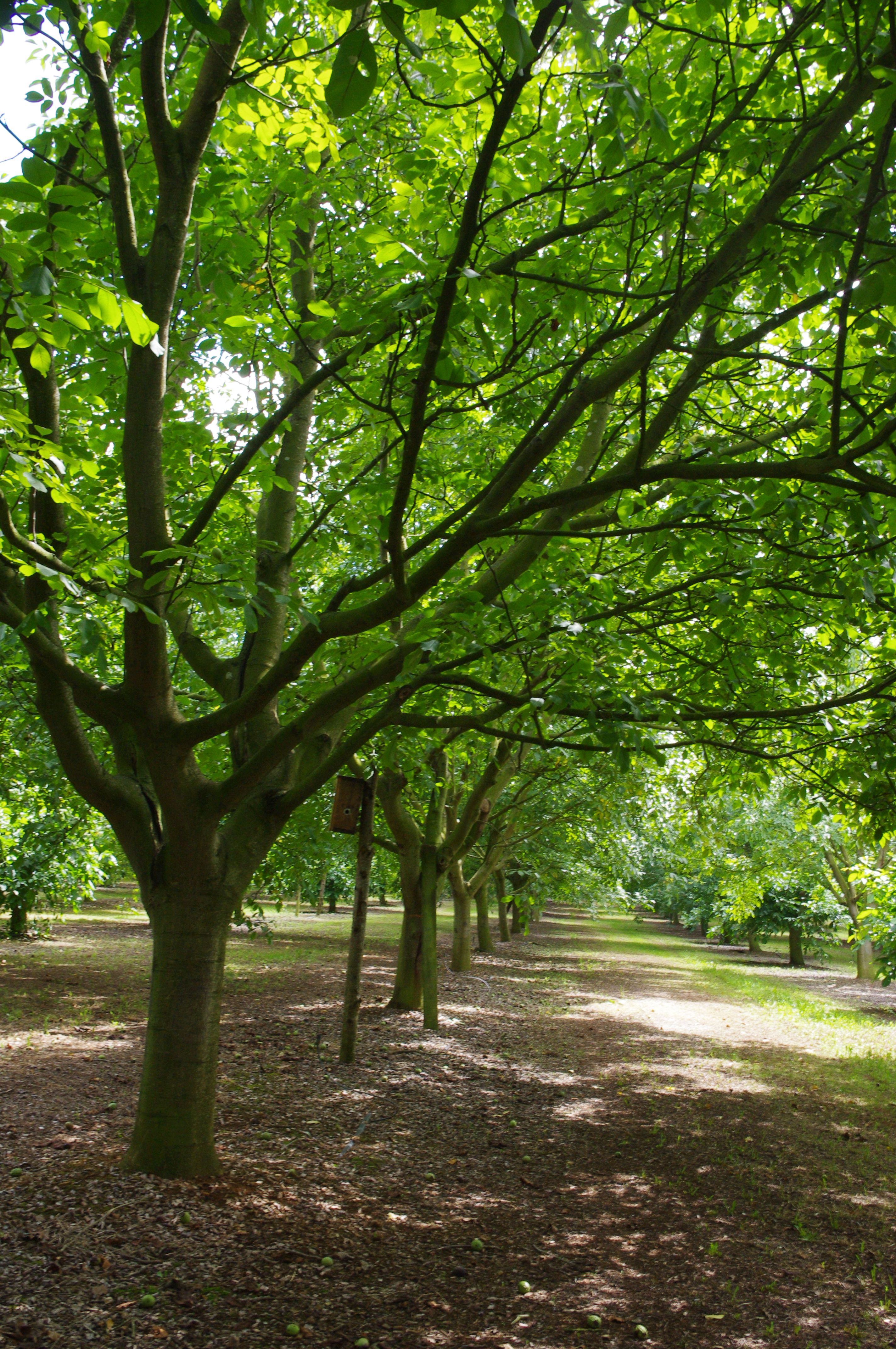 Walnut plantation in Charente, France